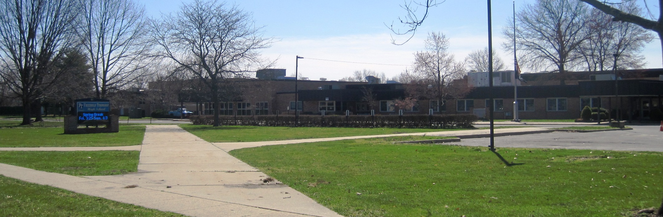 Photo showing the front of Freehold Township High School in Freehold Township, New Jersey. The school is located along County Route 524.